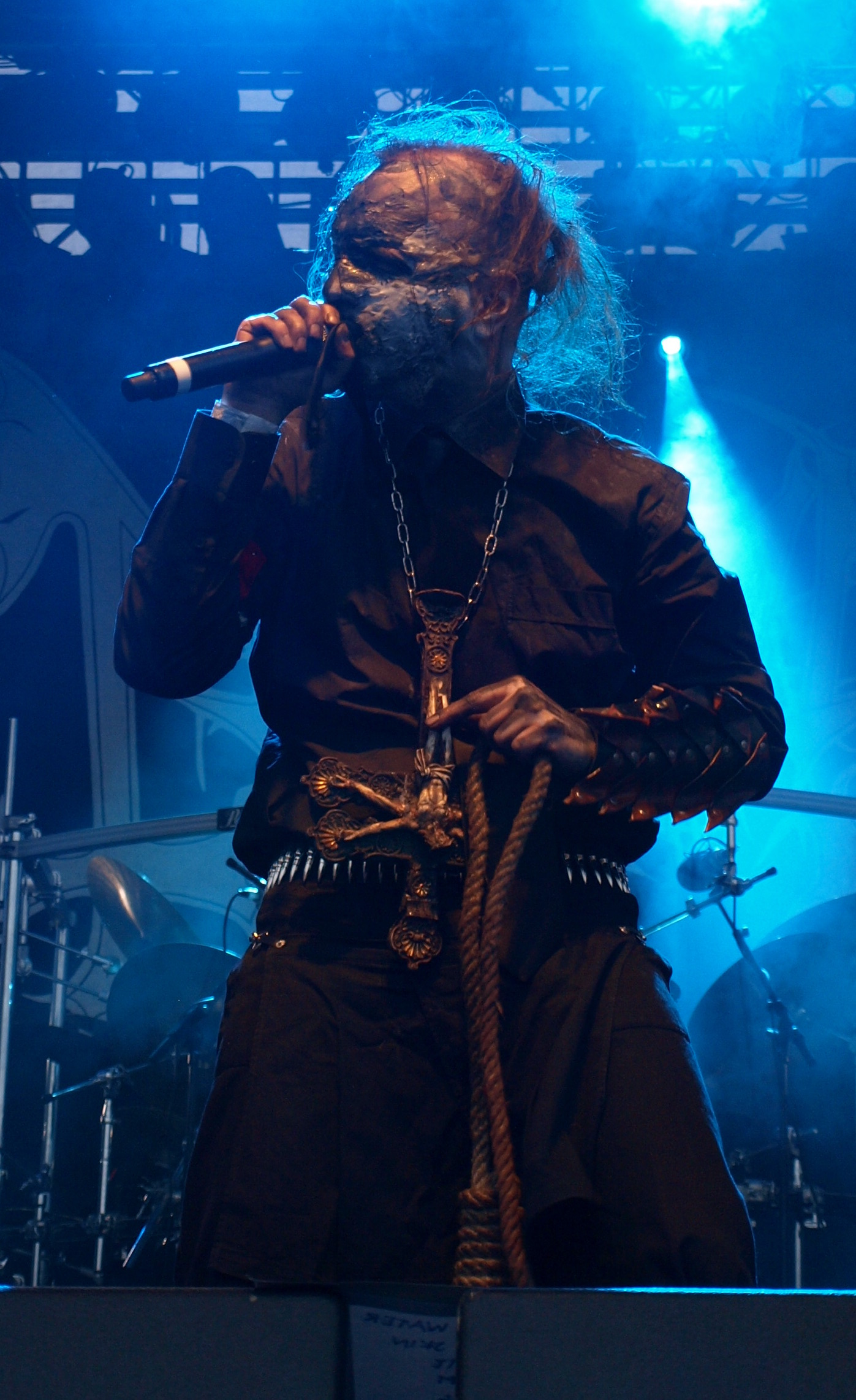 Norwegian black metal band Mayhem live at Jalometalli 2008 in Oulu.